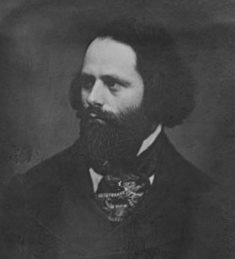 Portrait of Elliott.